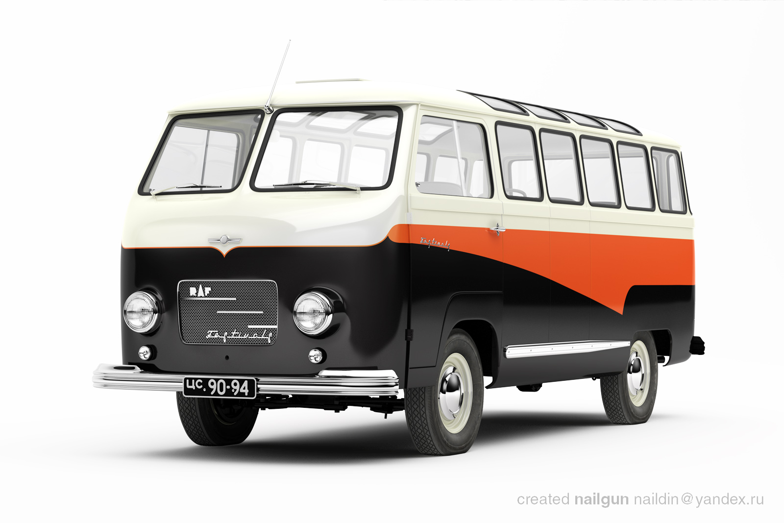 3d model